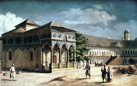 Stavropoleos Church, Bucharest